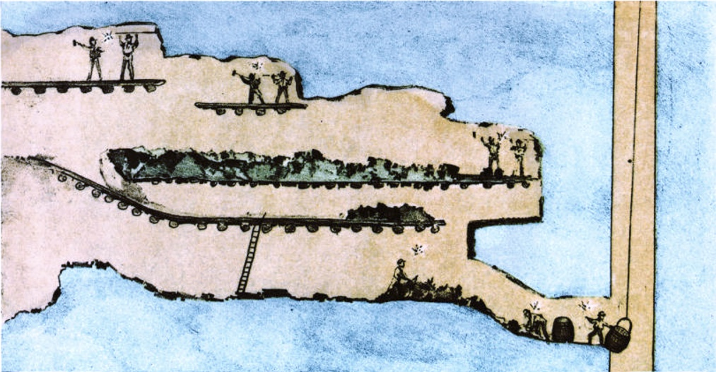 Shaft or Lode Mining, lithograph, 1866, lithography by Julius Bien, Pikes Peak Library District